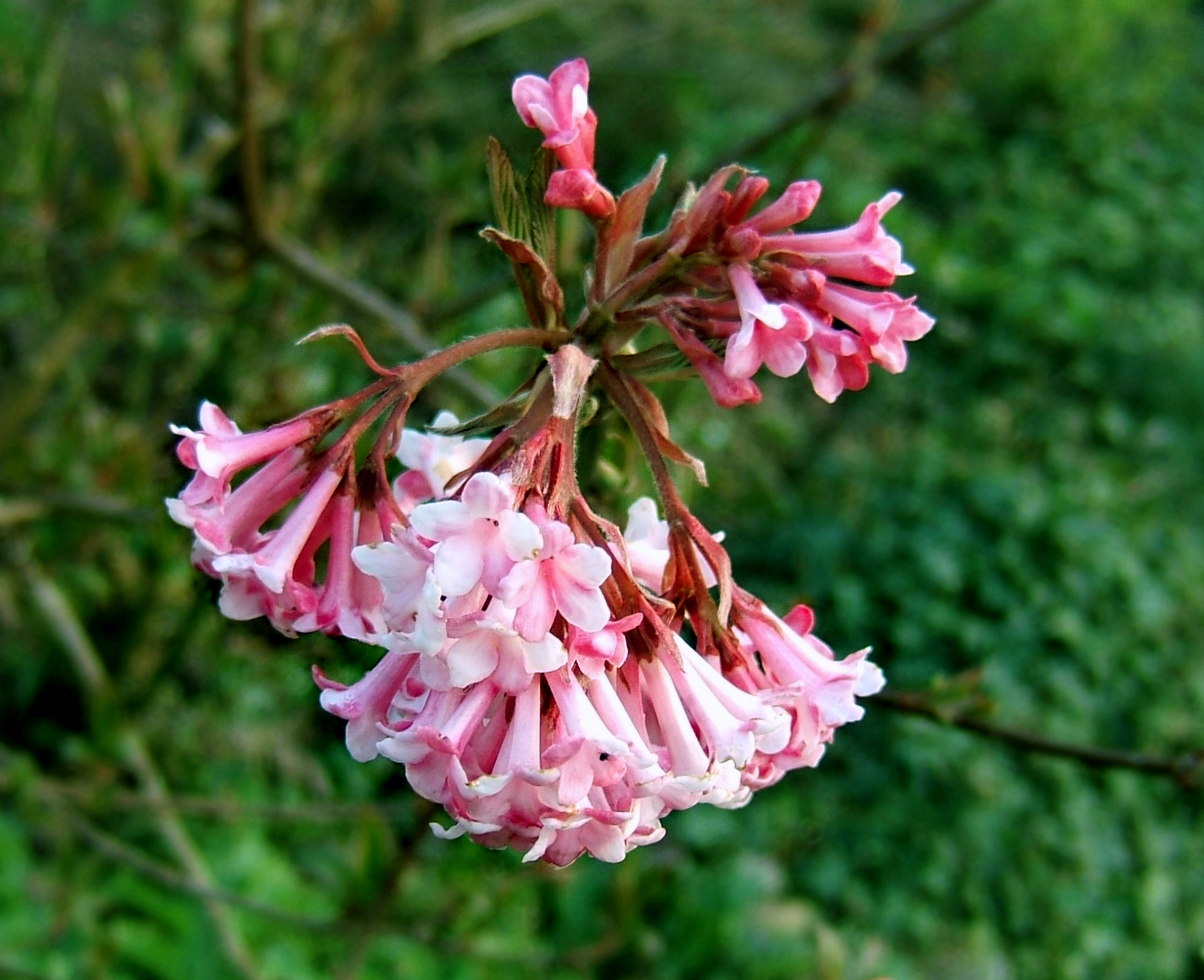 This plant is growing in a half shady place at 240 m in Rems Valley, a warm viniculture region in Baden_Württemberg, Germany.